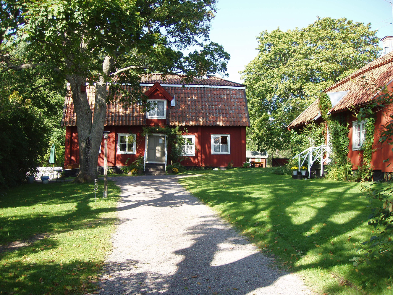 "Långängens gård", Lidingö, Sweden.